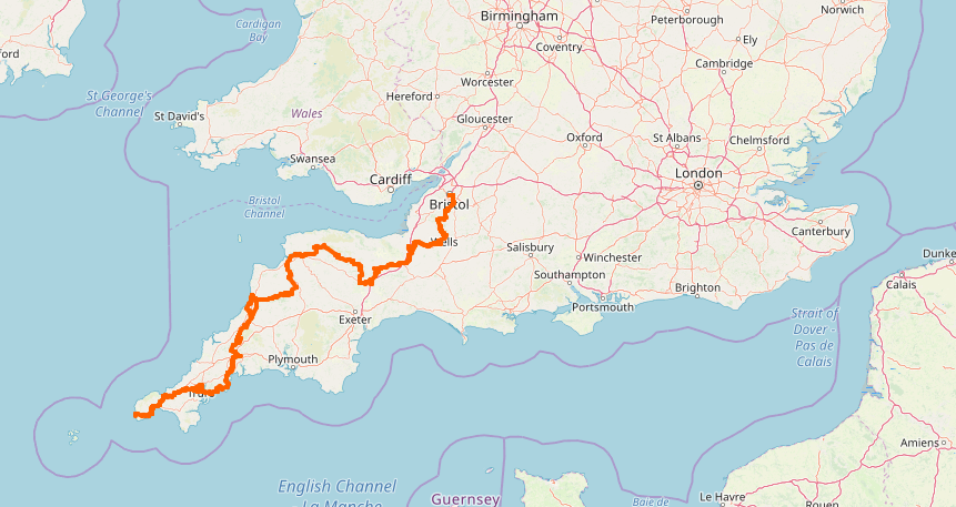 It is a map, showing the south of the UK, with highlighted in red the national cycle route 3, this cycle route starts in Bristol (South West England) down to the tip of the island near Sennen Cove